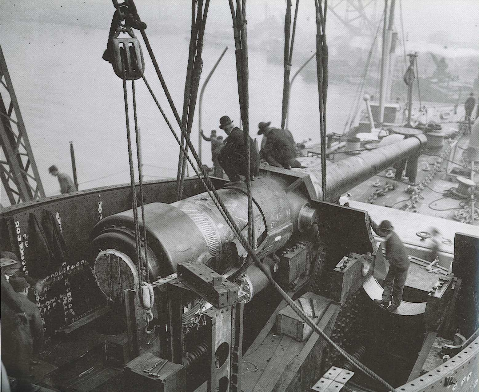 USS Connecticut (BB-18) getting one of her bow 12"/45 (30.5 cm) guns installed at the New York Navy Yard on 31 January 1906